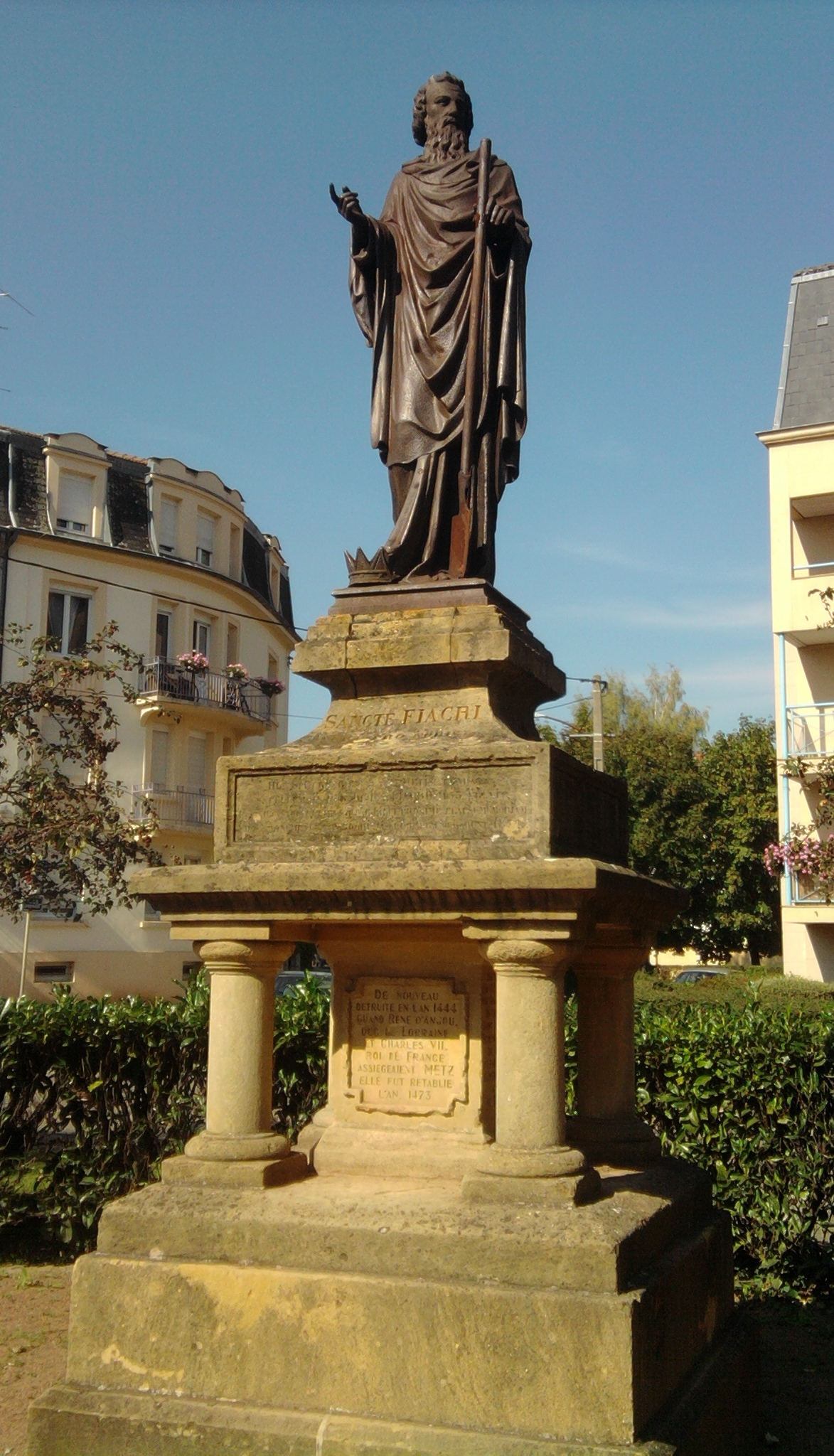 Photography of a statue of Saint-Fiacre in Metz-Sablon (Moselle, France)